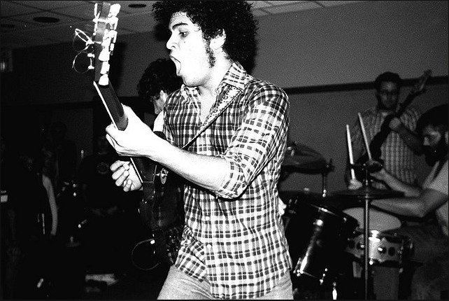 Musician Rajiv D. Patel during a Before Braille show in Mesa, Arizona.